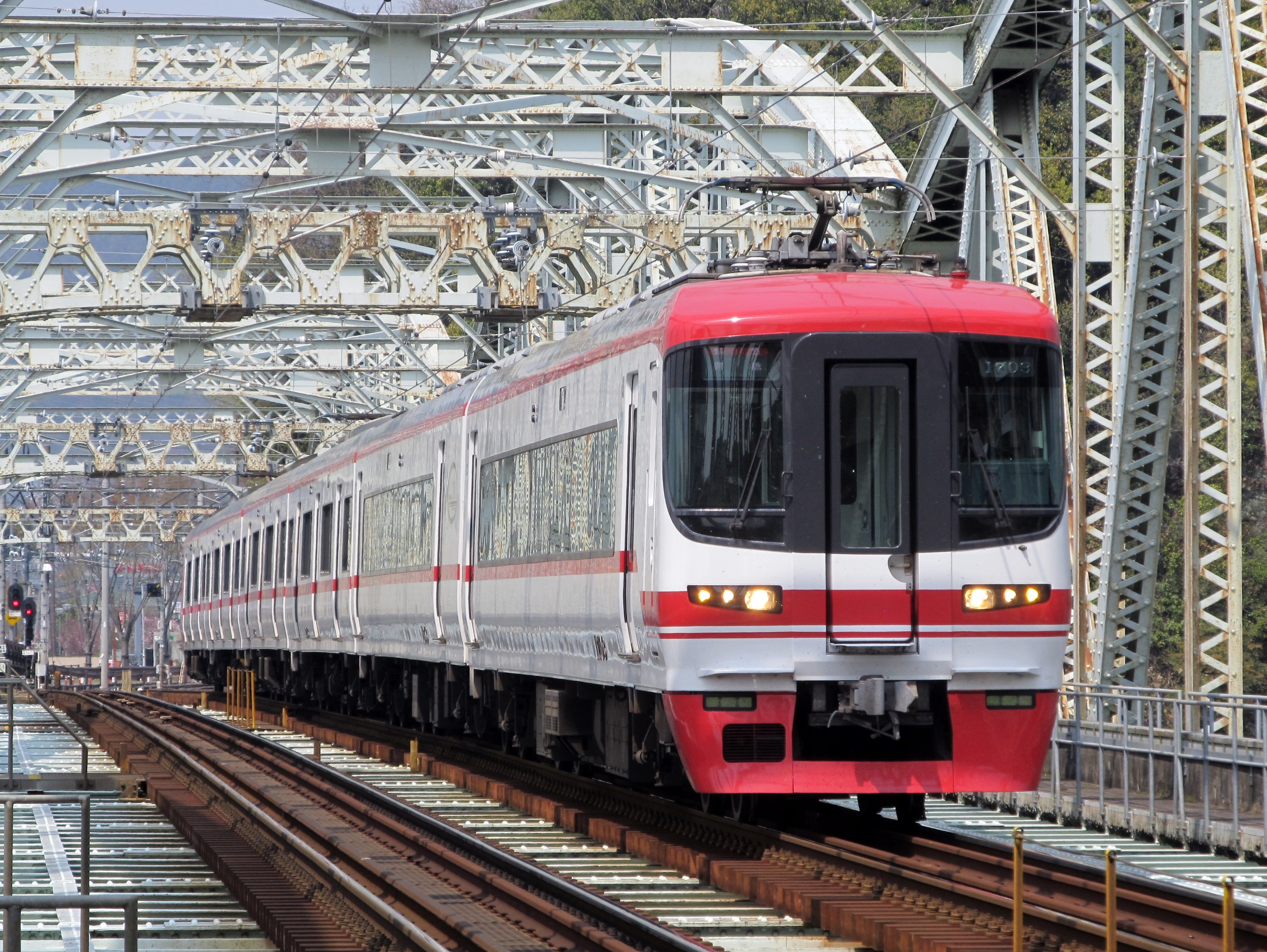 Meitetsu 1700 series EMU set 1703 on a Limited Express service for Toyohashi